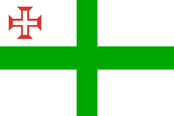 Flag of Portuguese Commander-in-Chief of the Fleet